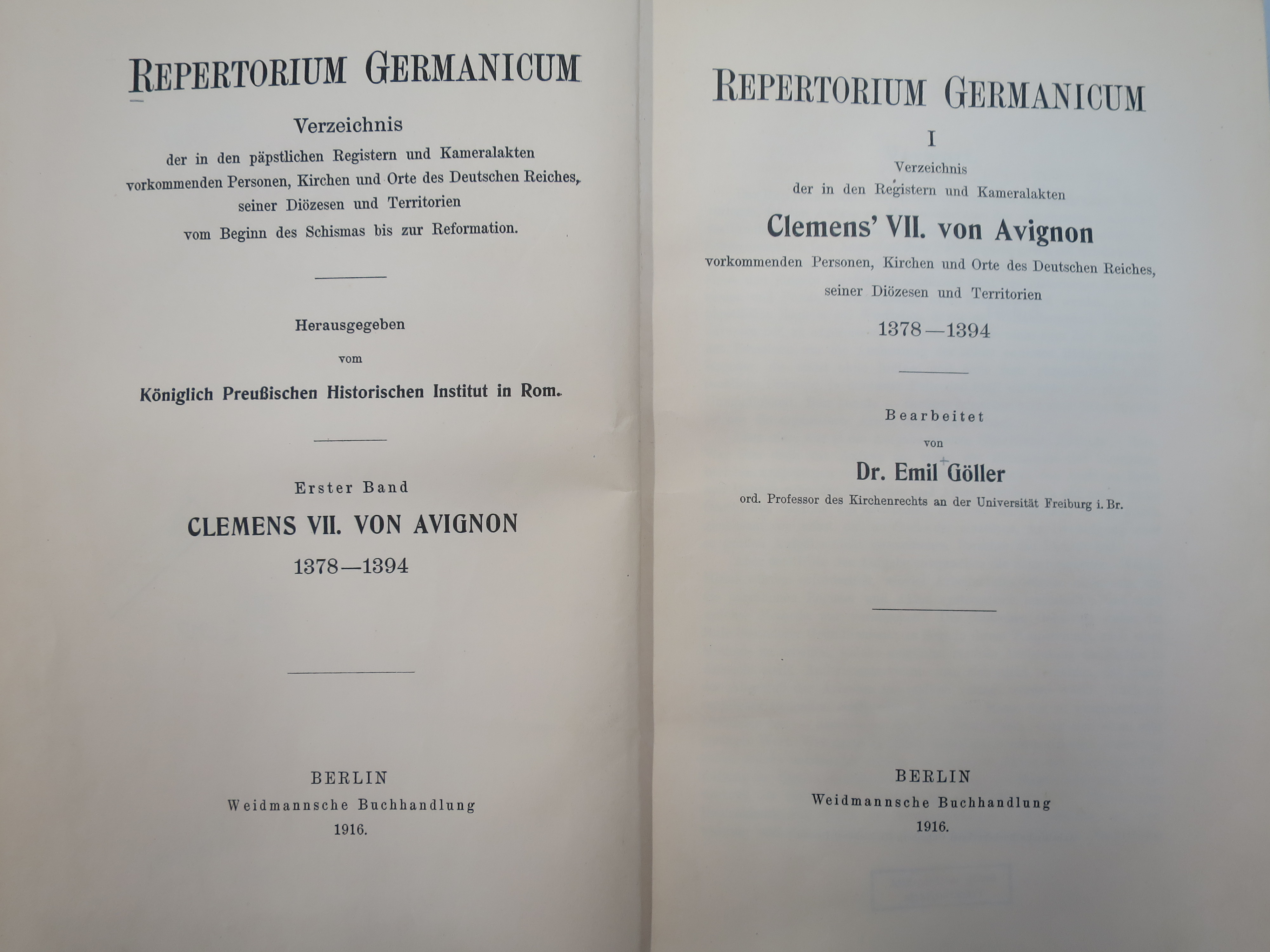 Repertorium Germanicum, vol. 1